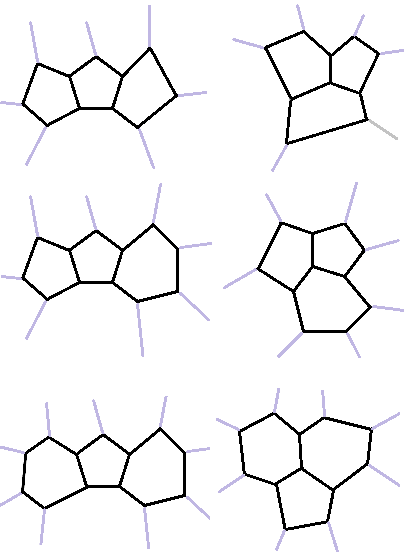 Franklin used in 1922 to prove that the minimal counterexample of the four color theorem contains at least 26 countries.